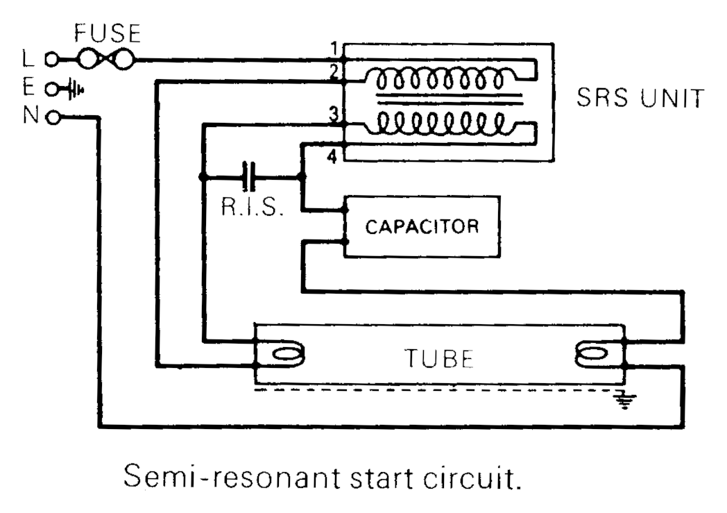 Wiring circuit of a semi-resonant fluorescent lamp circuit